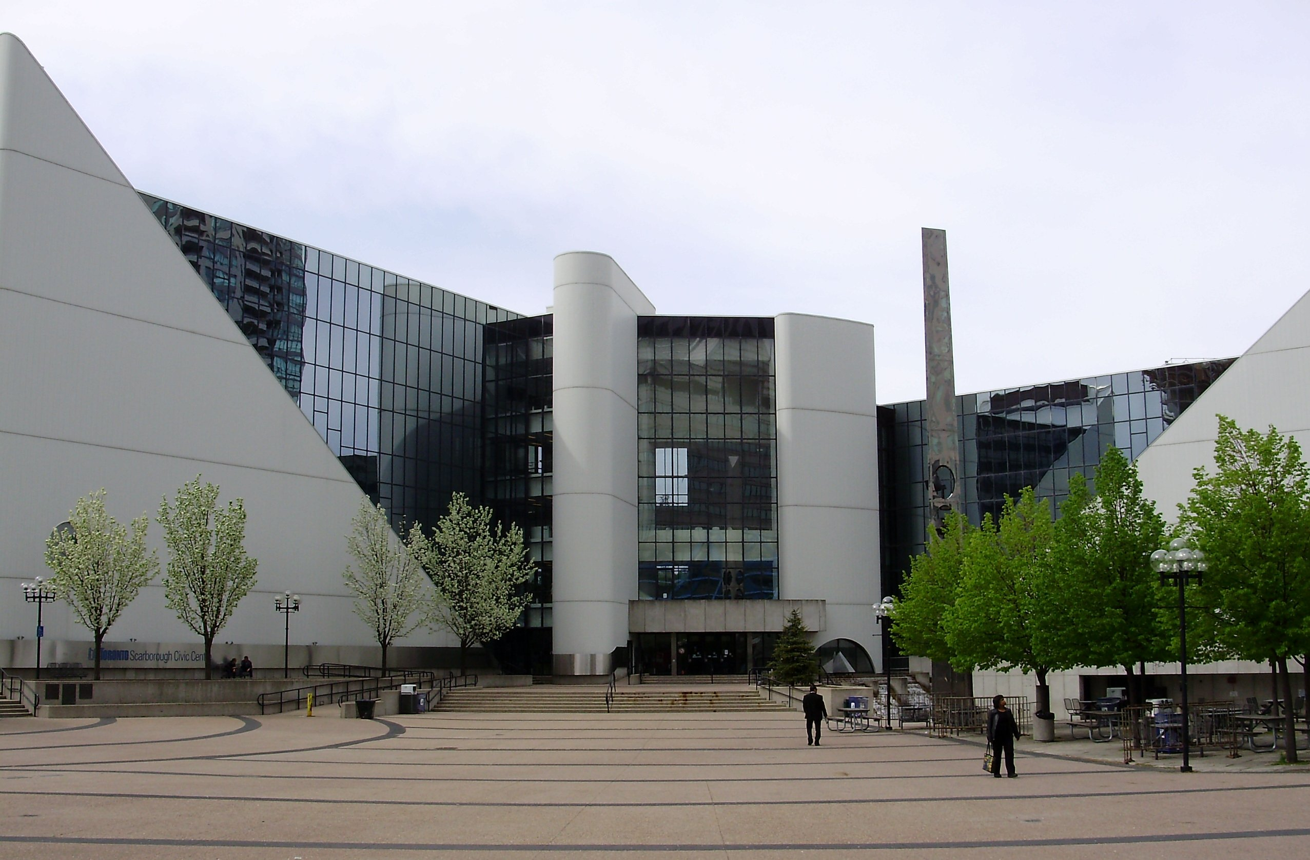 The Scarborough Civic Centre in Scarborough, Canada was Scarborough's city hall until its amalgamation with Toronto in 1998. Depicted place: Scarborough Civic Centre